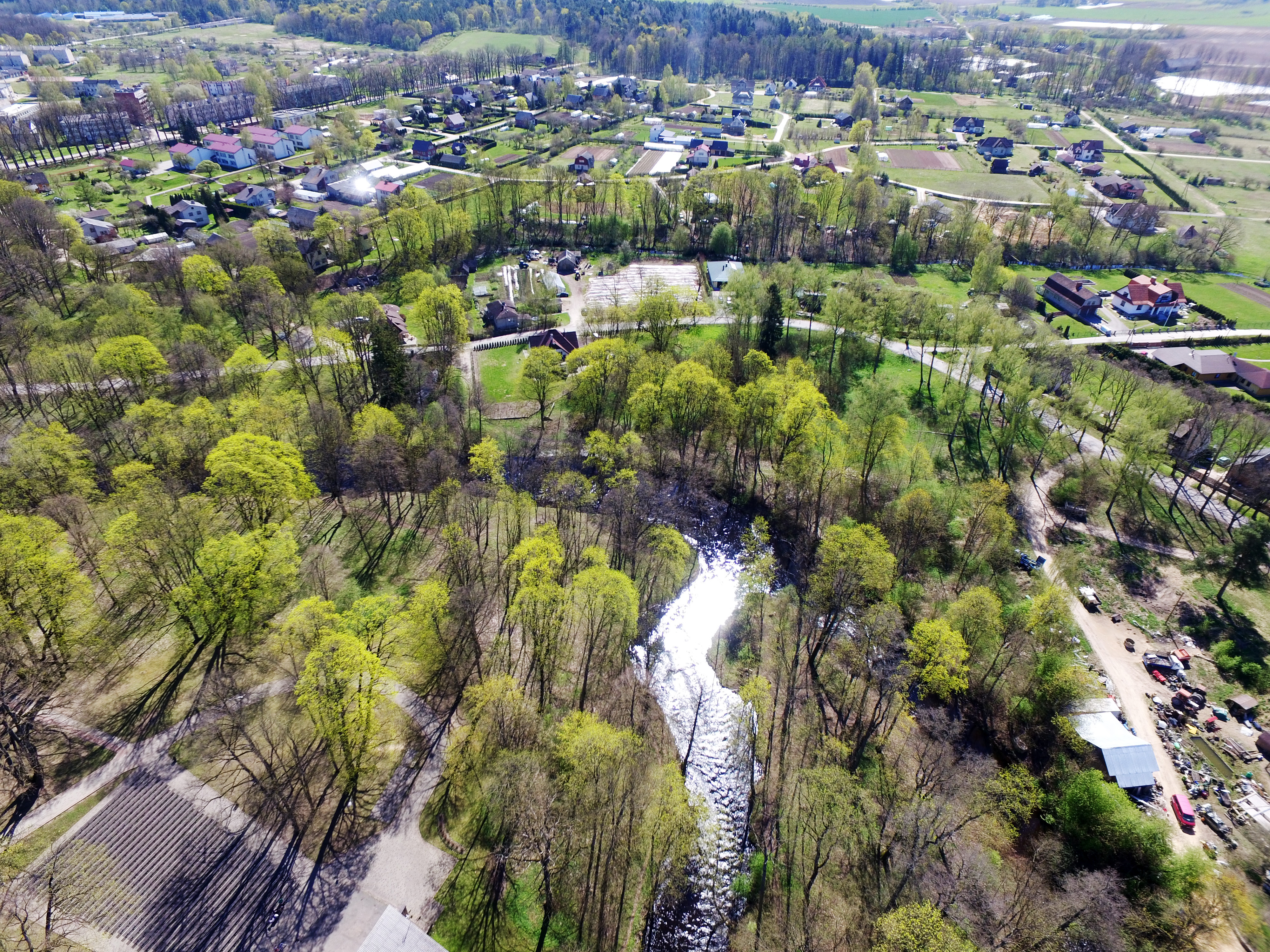 Iecavas pilsēta pavasarī